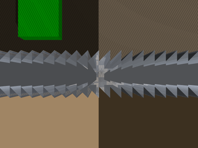 Close-up view of a Dove-prism array (an array of elongated Dove prisms) seen from above. For the particular orientation of the sheet this means that the individual Dove prisms can clearly be seen. One end of a green cuboid can also be seen; in different images this cuboid is viewed through the Dove-prism array to illustrate a few of its optical properties.